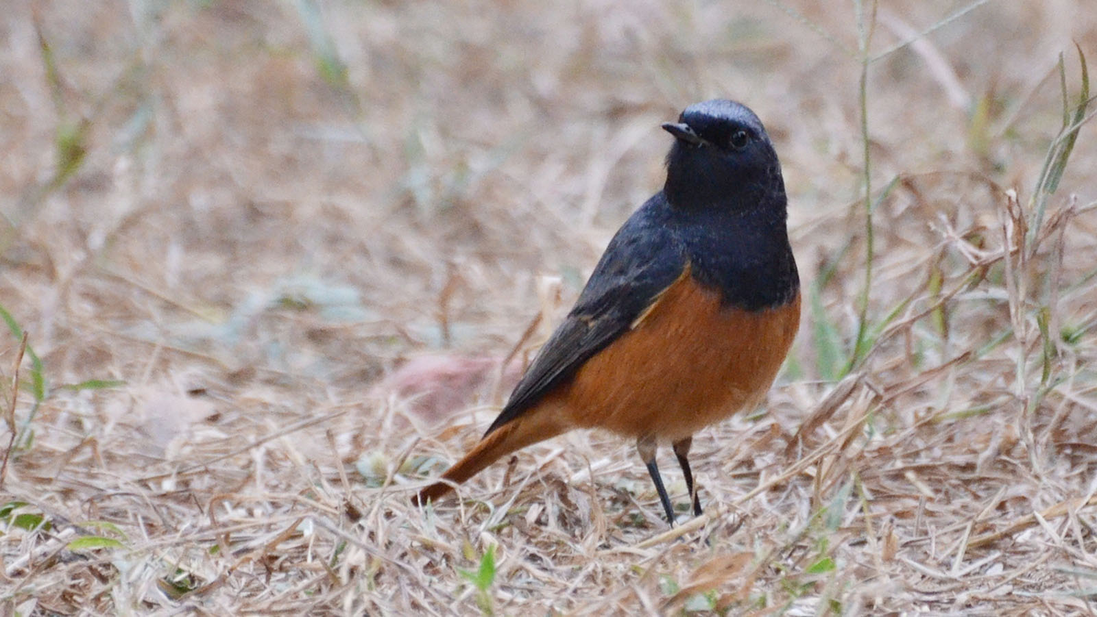 Black redstart. This image is one in the series of photographs I'm uploading under the tag name "Birds of IIT Delhi".